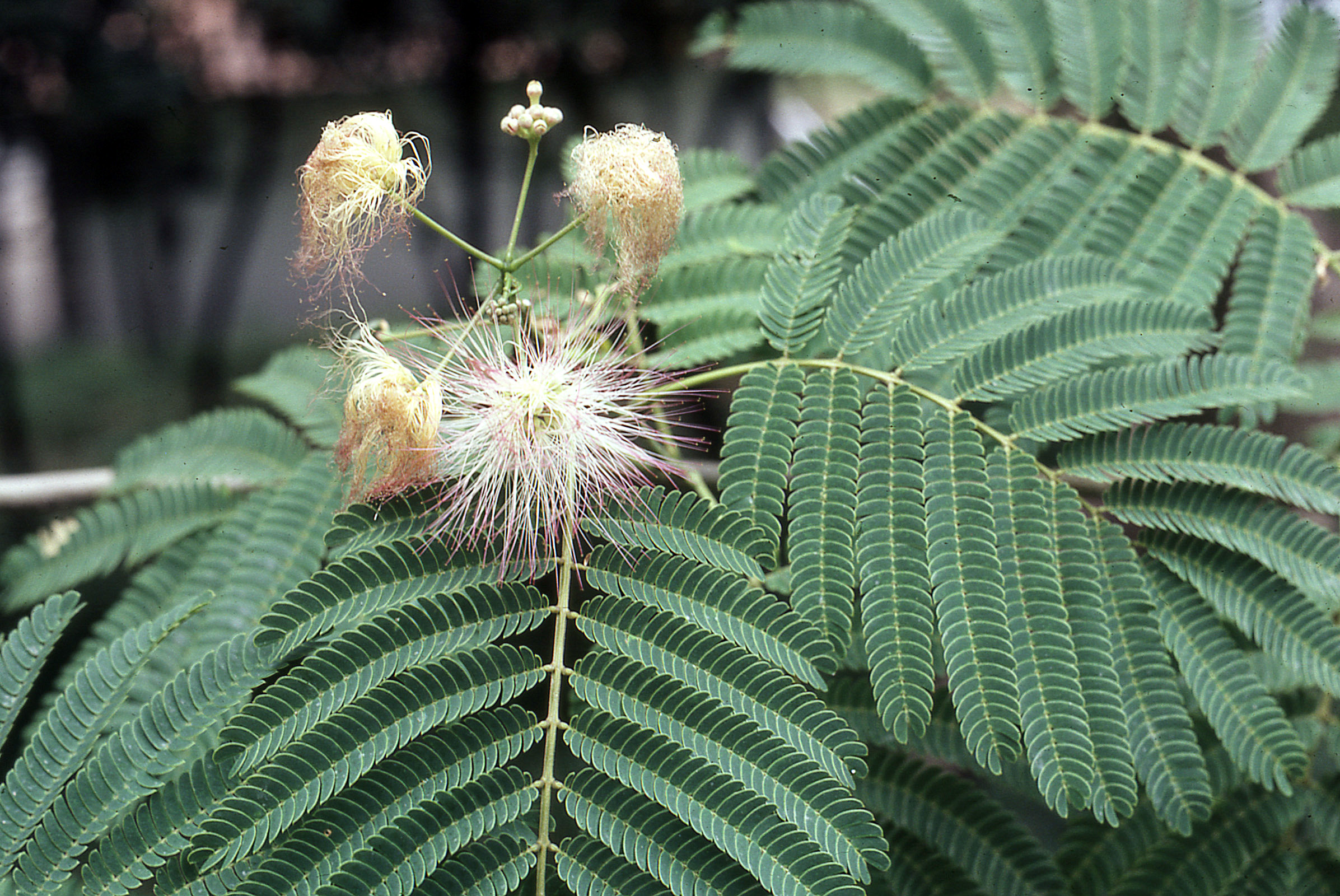 Inflorescence of Albizia julibrissin (photo: Mihailo Grbic)